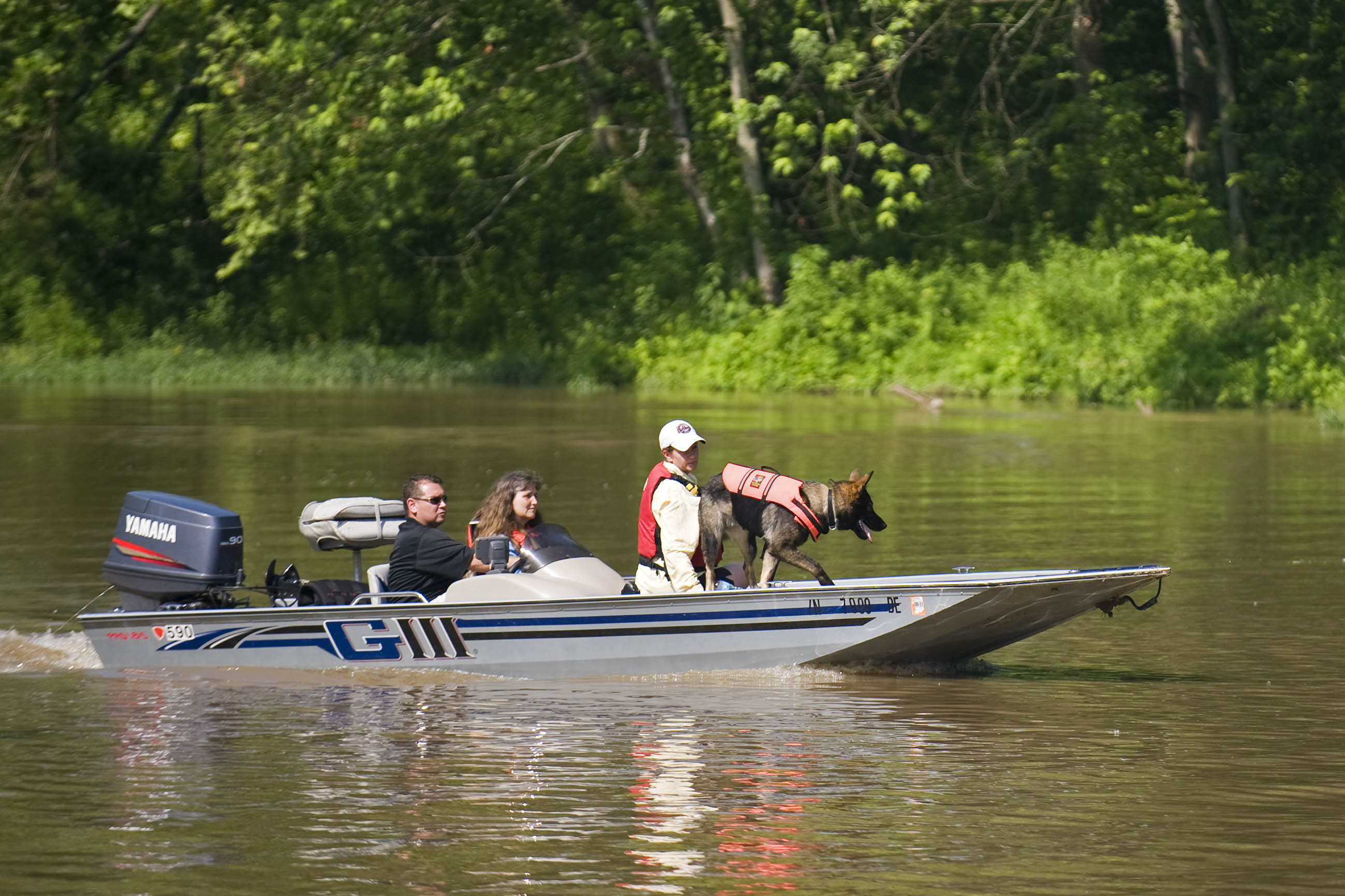 A Search and Rescue dog tracks a scent on the Big Blue River in Edinburgh, Ind., June 4, during the Department of Homeland Security Search and Rescue Conference held at the Camp Atterbury Joint Maneuver Training Center in central Indiana.